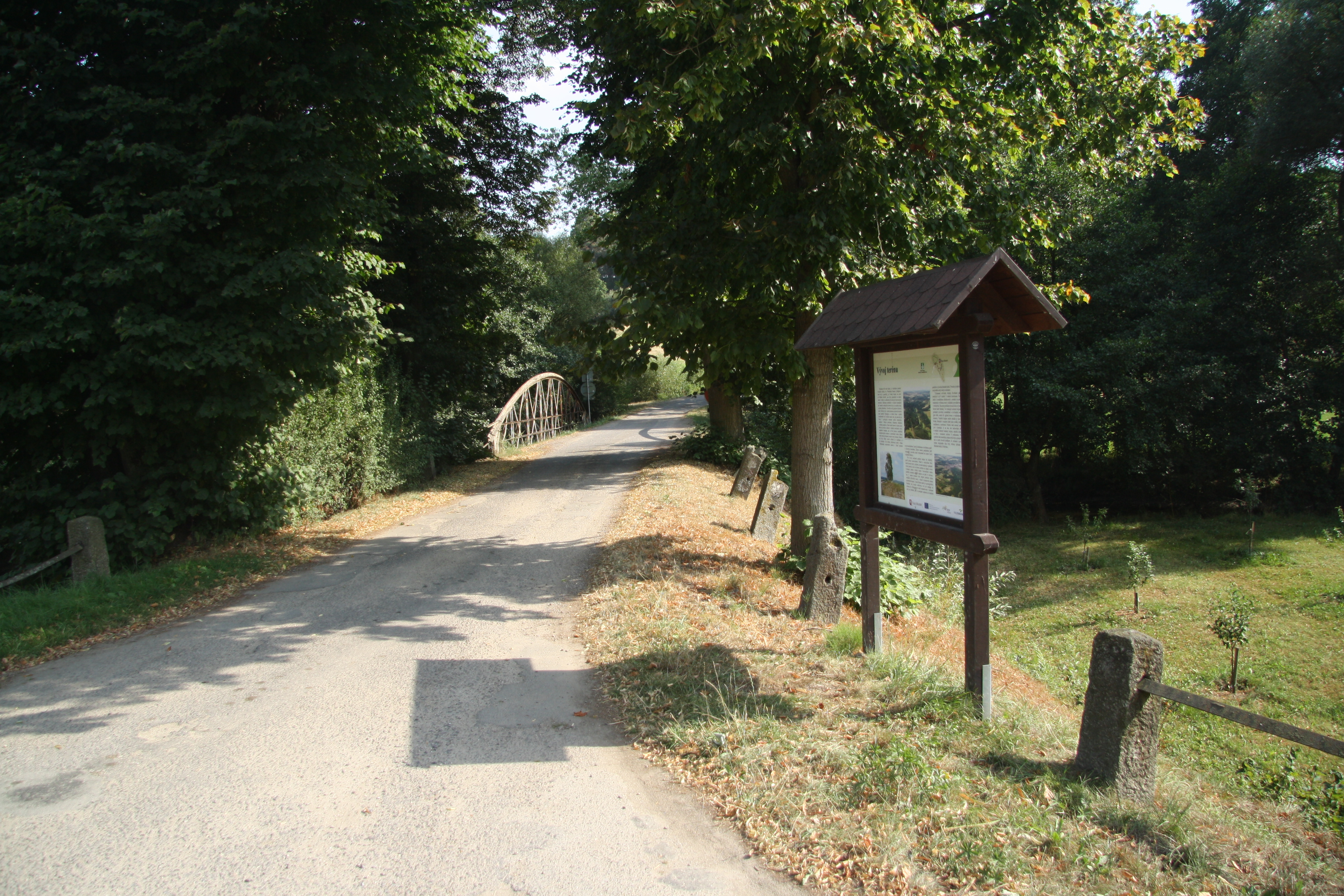 Sign of educational trail of Balina Valley in Baliny, Žďár nad Sázavou District.